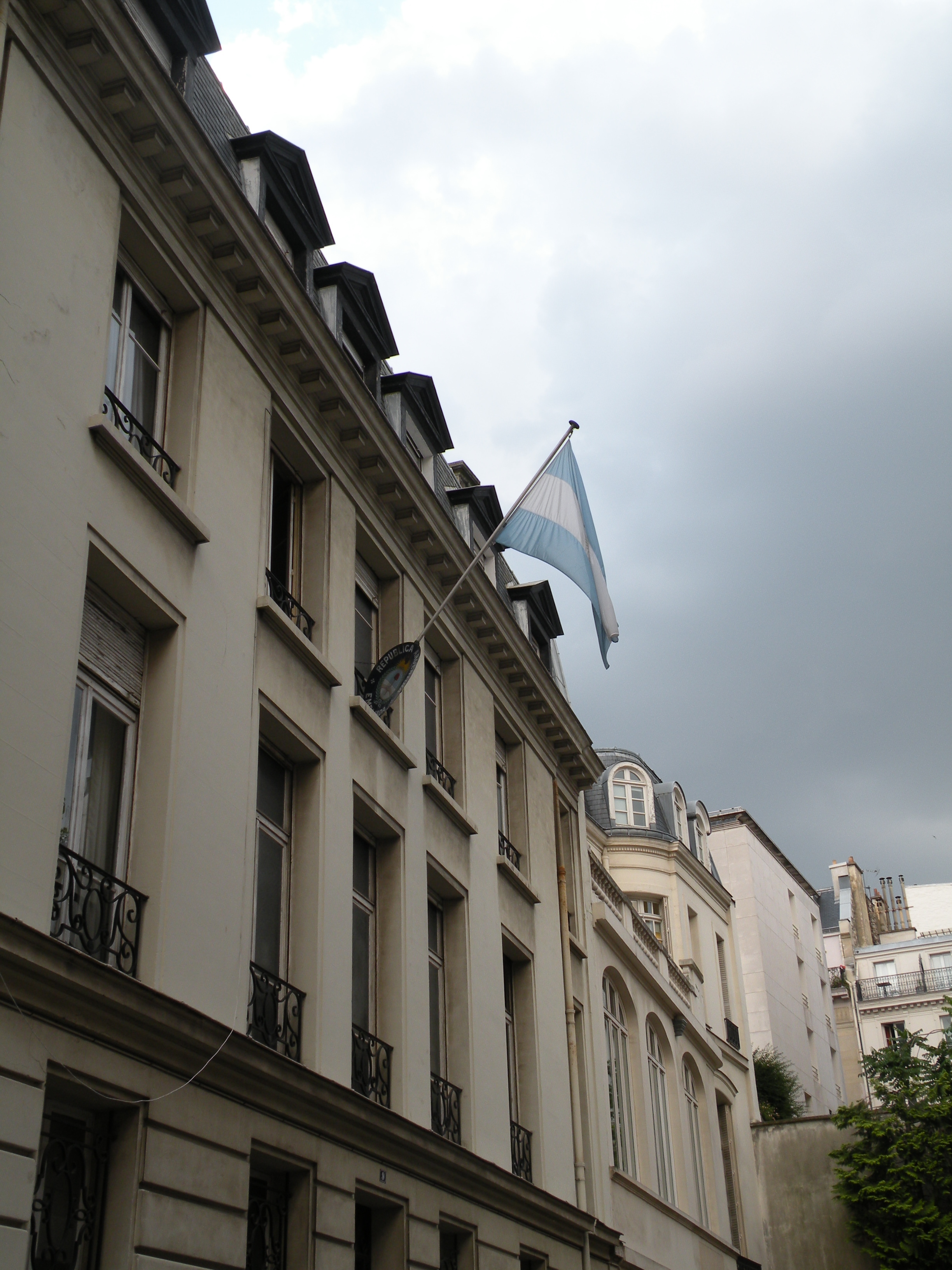 Argentine embassy in France, Paris.